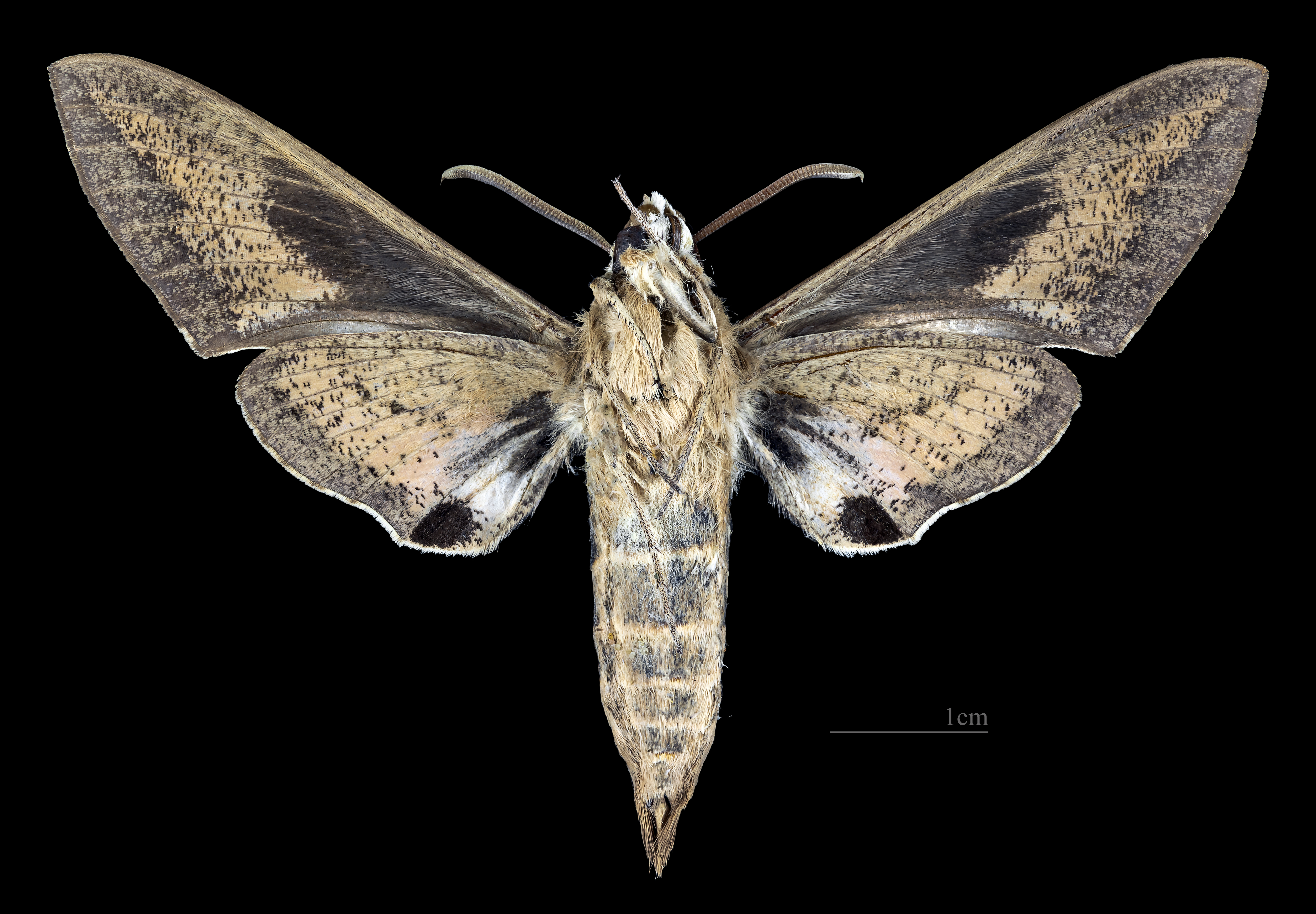 Hyles euphorbiarum - △ Ventral side Collection of the Mathematician Laurent Schwartz